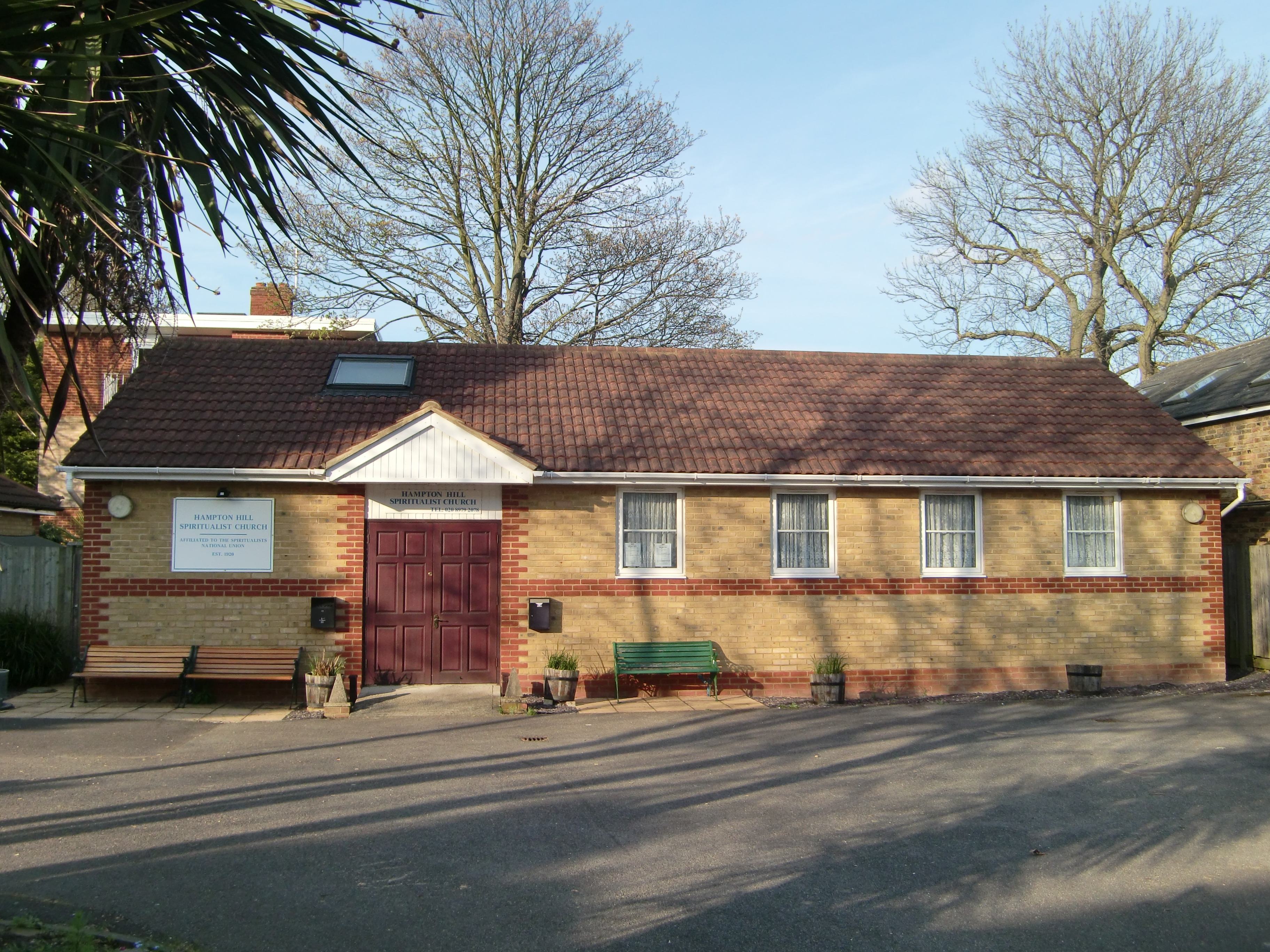 Hampton Hill Spiritualist Church, Angel Close, Windmill Road, Hampton Hill, Middlesex